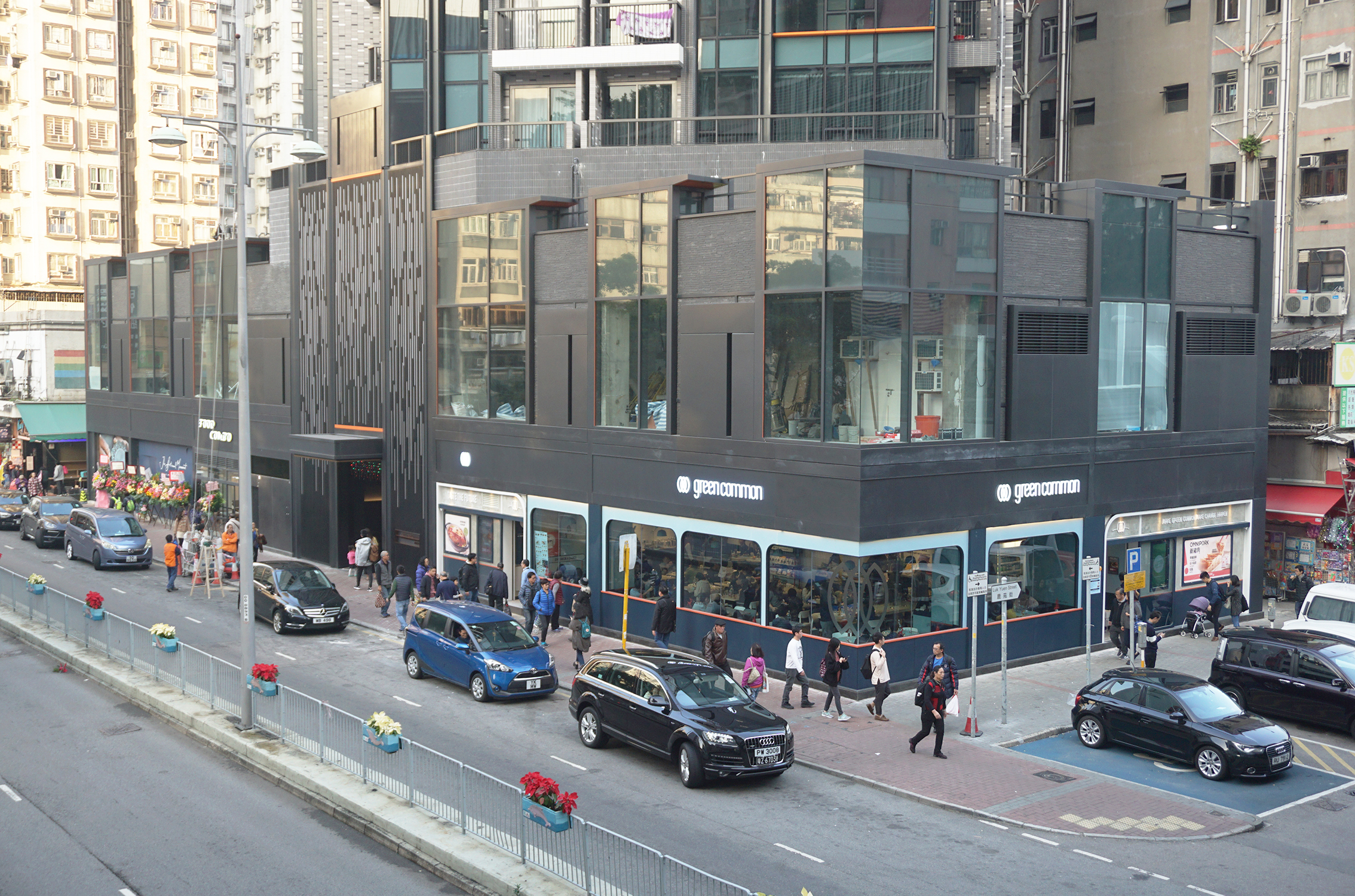 The Parkville in Tuen Mun, Hong Kong.